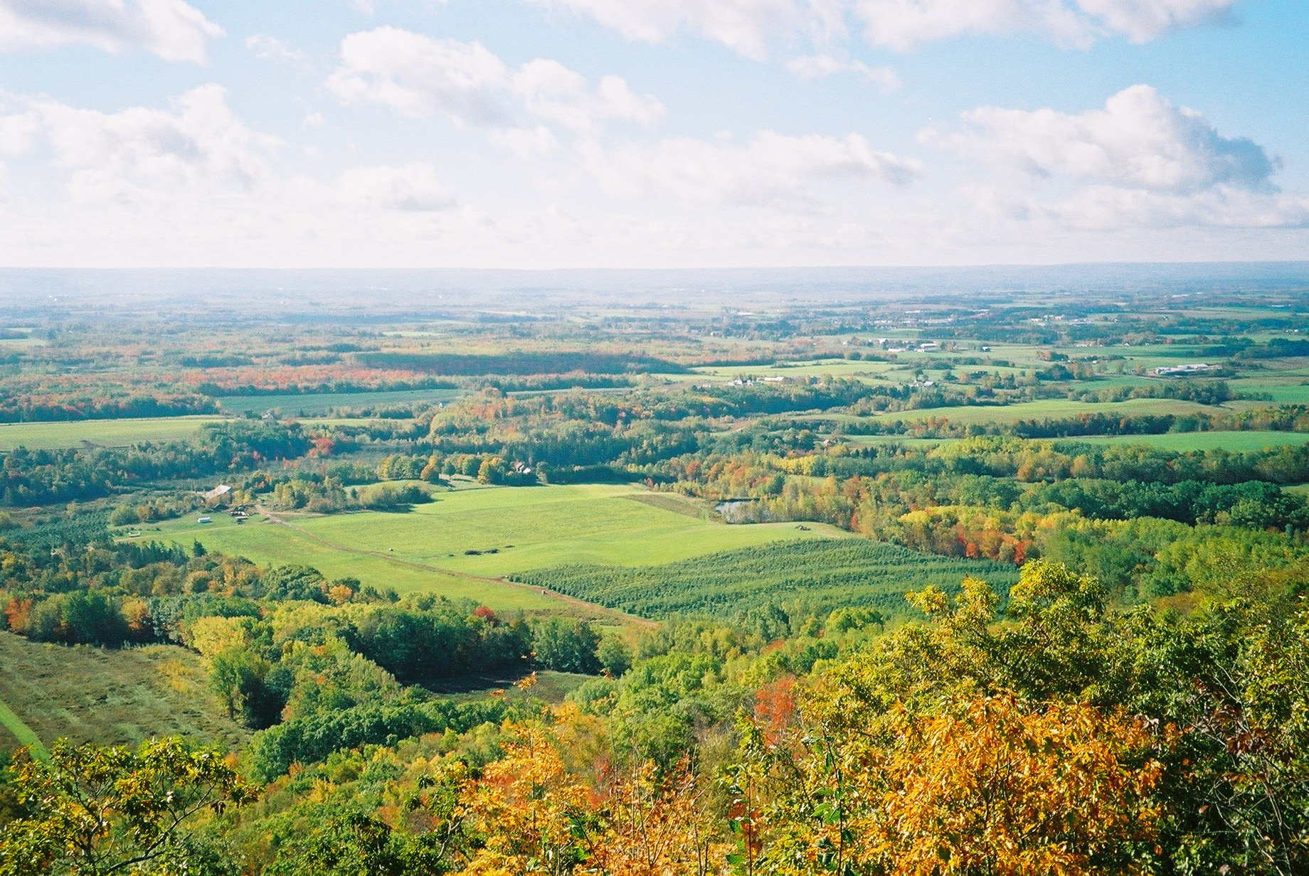 Description: View over the Annapolis Valley from the Look-off on the North Mountain, Oct. 2005 Author:Sares